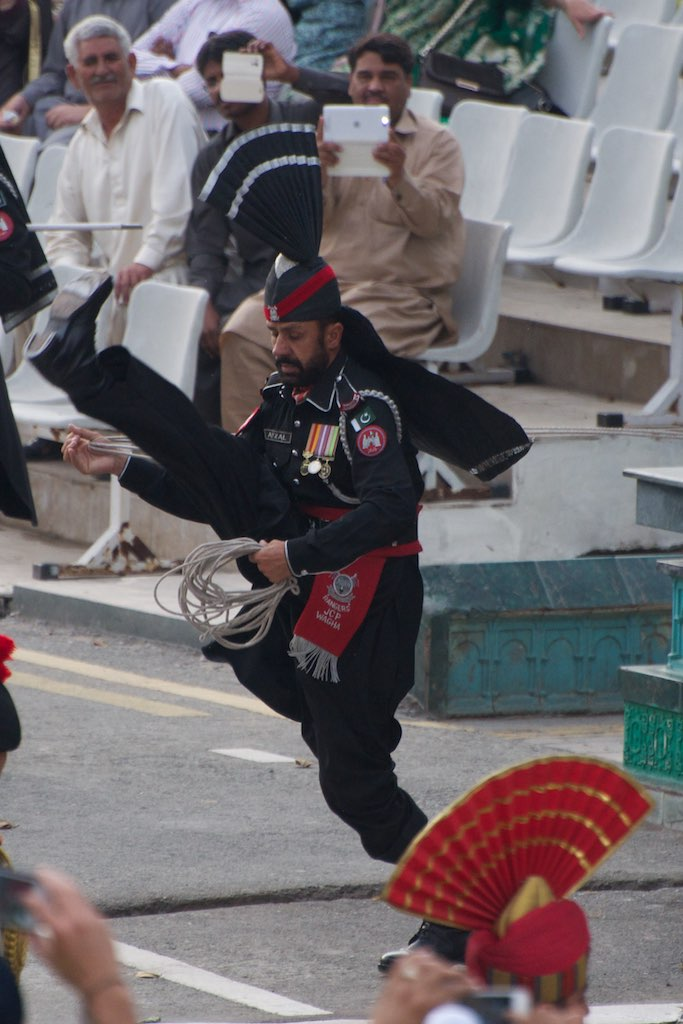 Pakistan guard at Wagah Border Ceremony